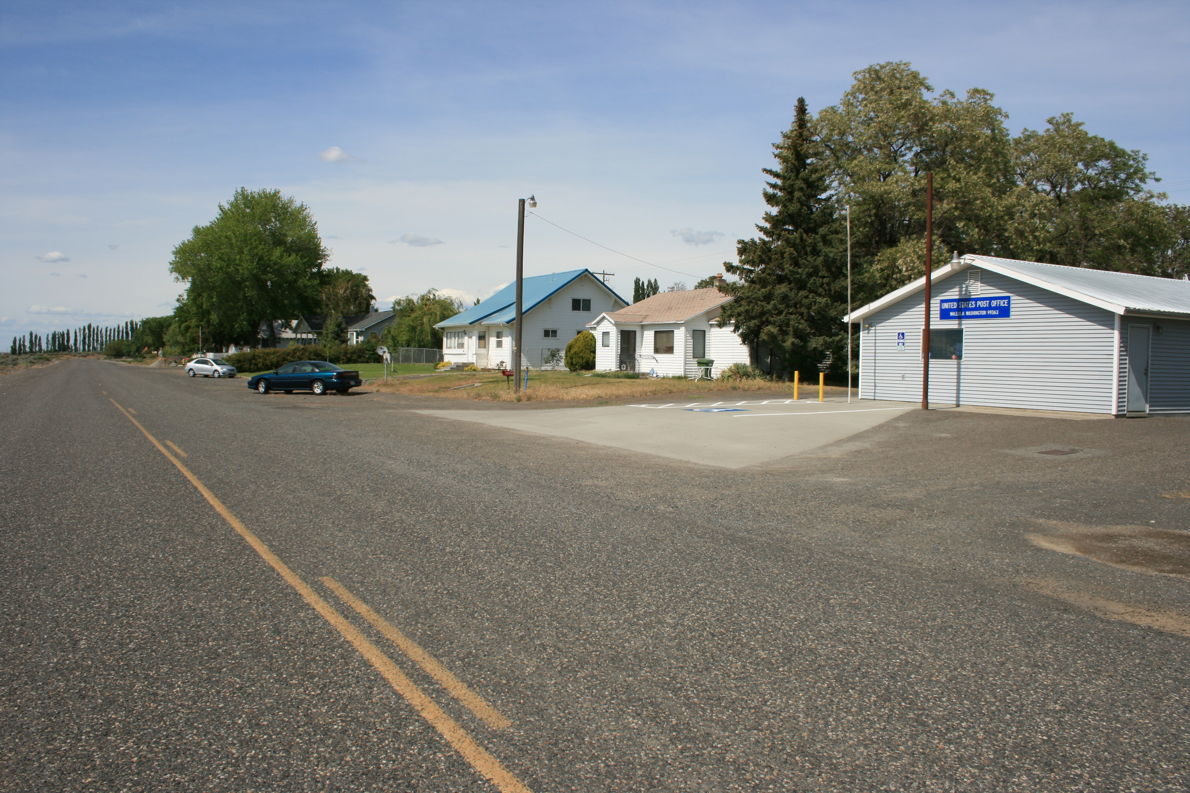 View of the Main Street of Wallula, Washington. Wallula is a census-designated place (CDP) in Walla Walla County, Washington, United States. The population was 197 at the 2000 census.